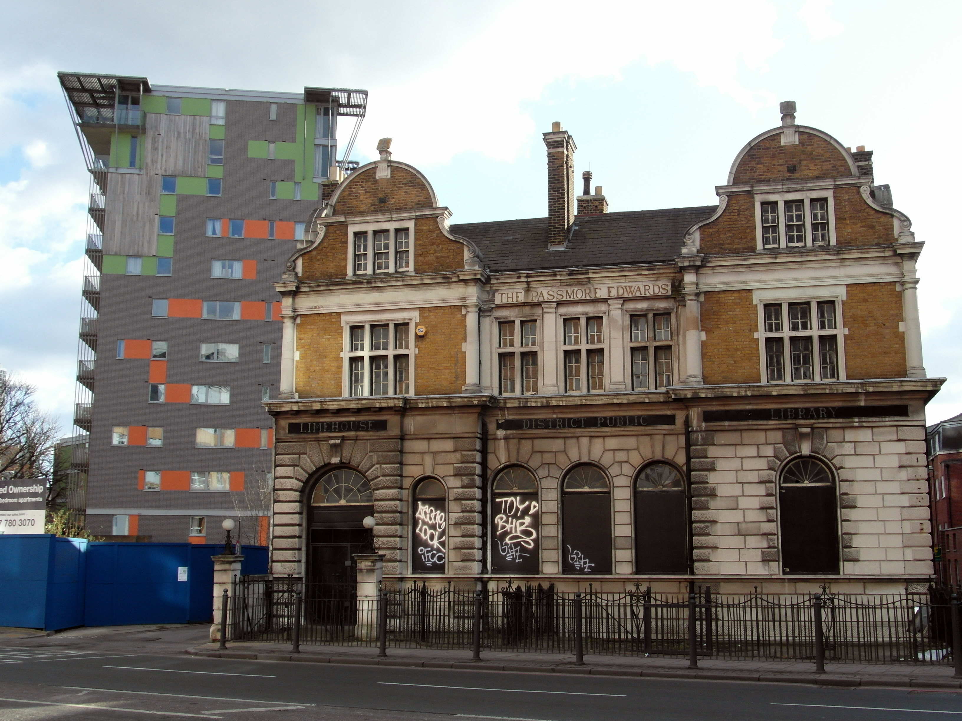 Commercial Road, Limehouse. Designed by J & S F Clarkson and completed 1900-01. The library closed in 2003.